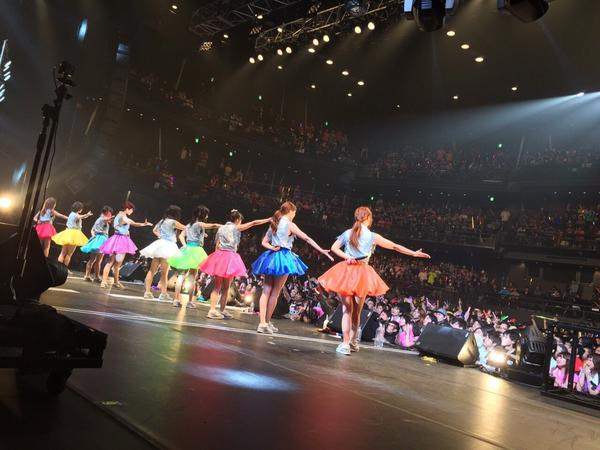 Photo at TDCH in their 5-years/Makoto graduation special live